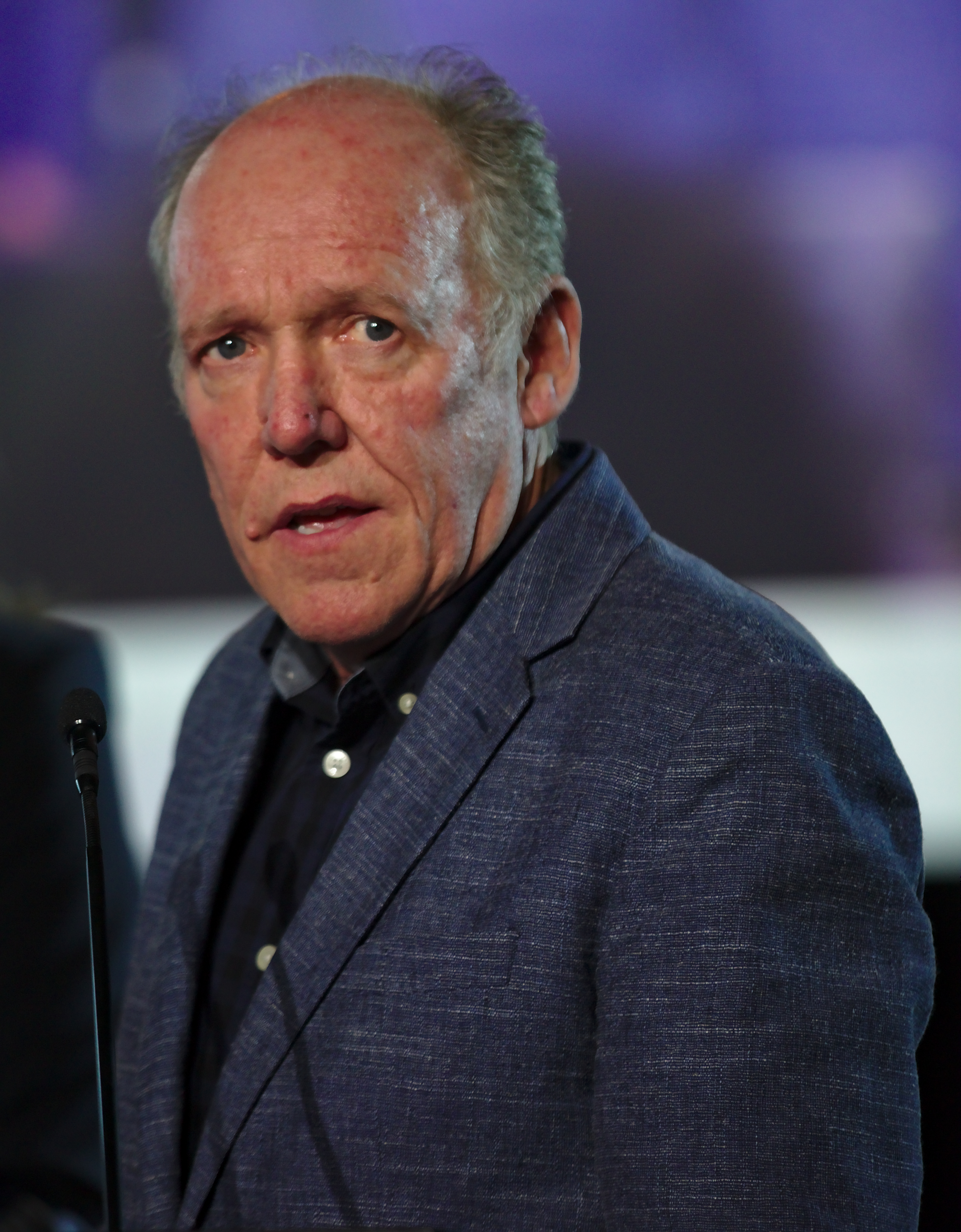 Ian Callum at European Car of the Year Award 2019